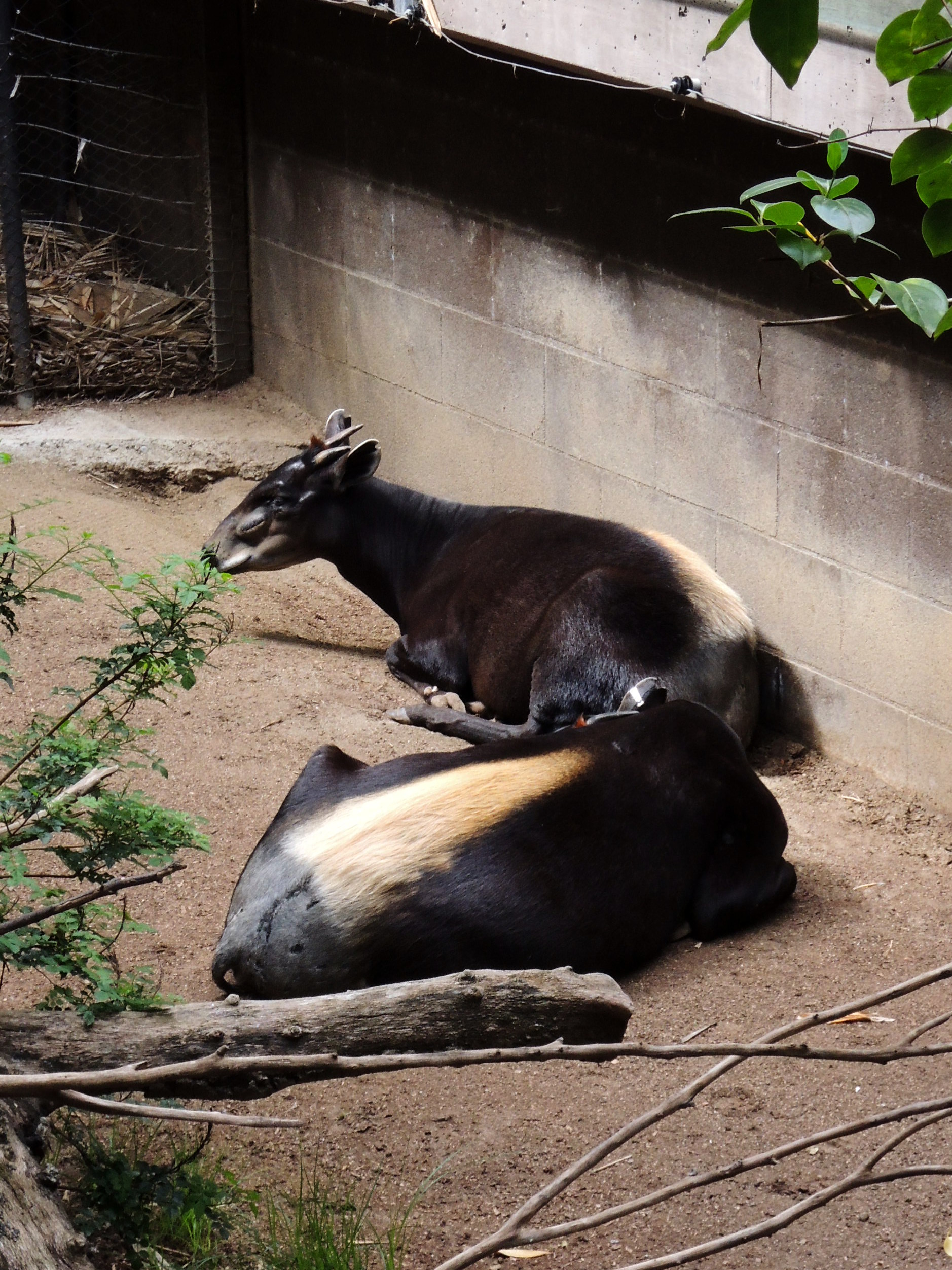 Yellow-backed duiker (Cephalophus silvicultor) in San Diego Zoo.